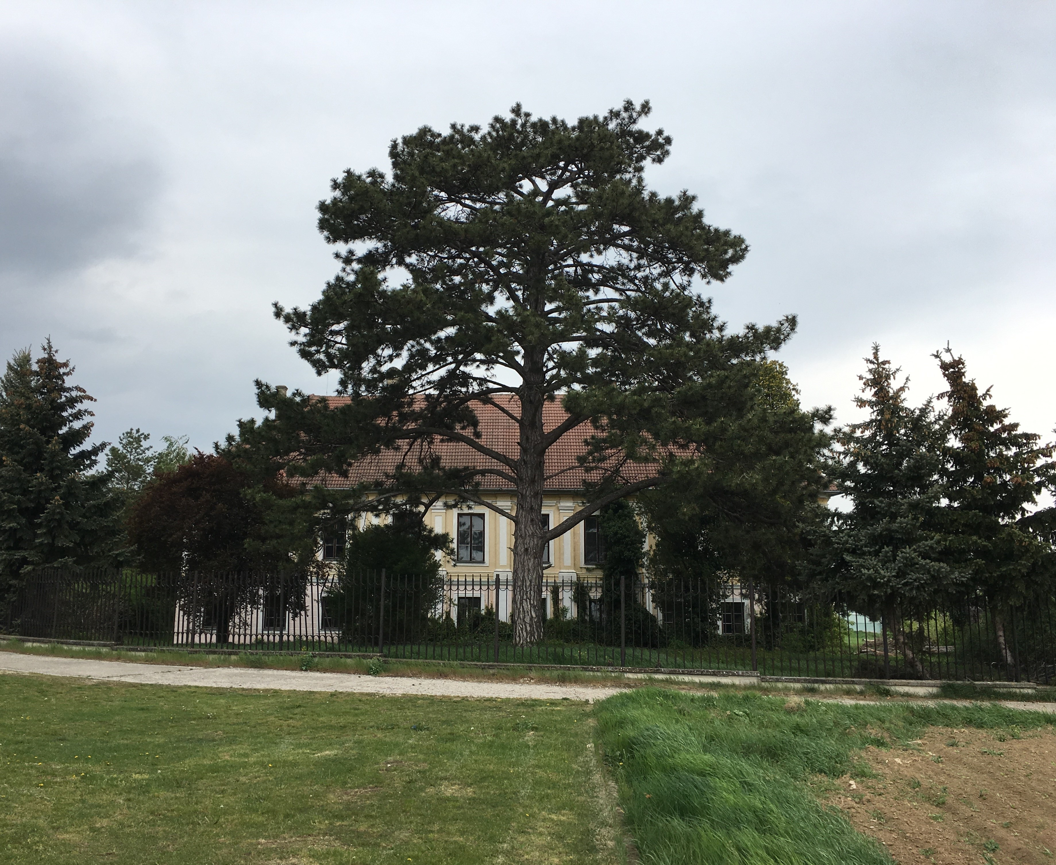 Manor house in Castkovce, Slovakia